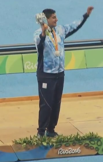 Hernán Urra receiving silver medal, put throwing F35 Río Paralympics 2016